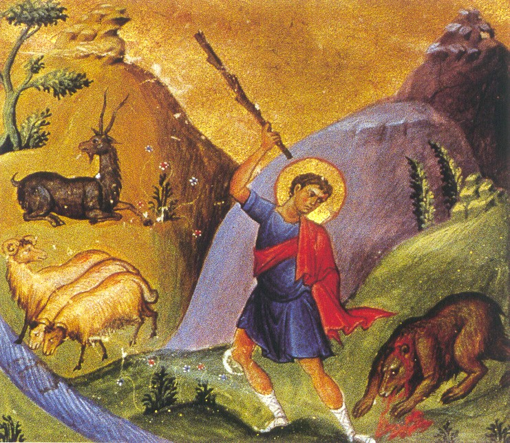 From life of David, Psalter of Basil II, later 10th c., Constantinople